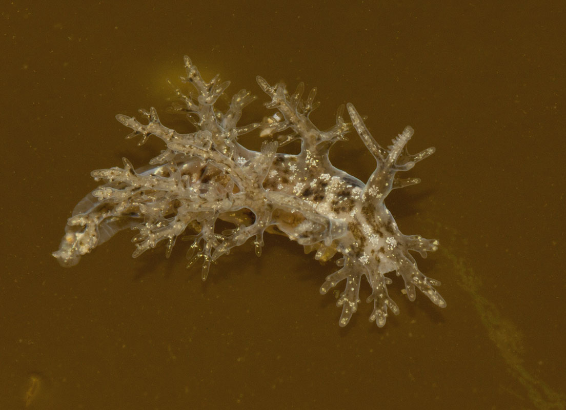 Dendronotus venustus MacFarland, 1966 , Bushy-backed Nudibranch. Morro Strand State Beach, Morro Bay, CA